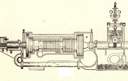 A steam turbine named "Mary-Ann" internal parts